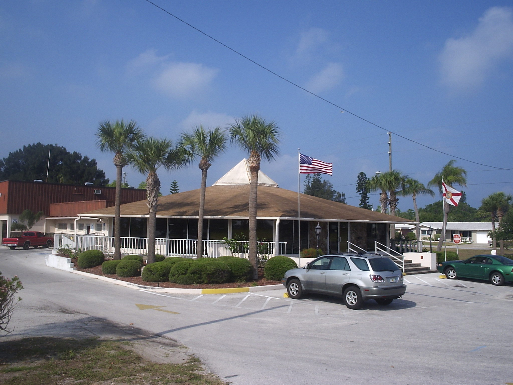 Bellair Beach Town Hall, Bellair Beach, Florida. Taken by me on May10, 2006, from the sidewalk.Mikereichold 15:22, 10 May 2006 (UTC)